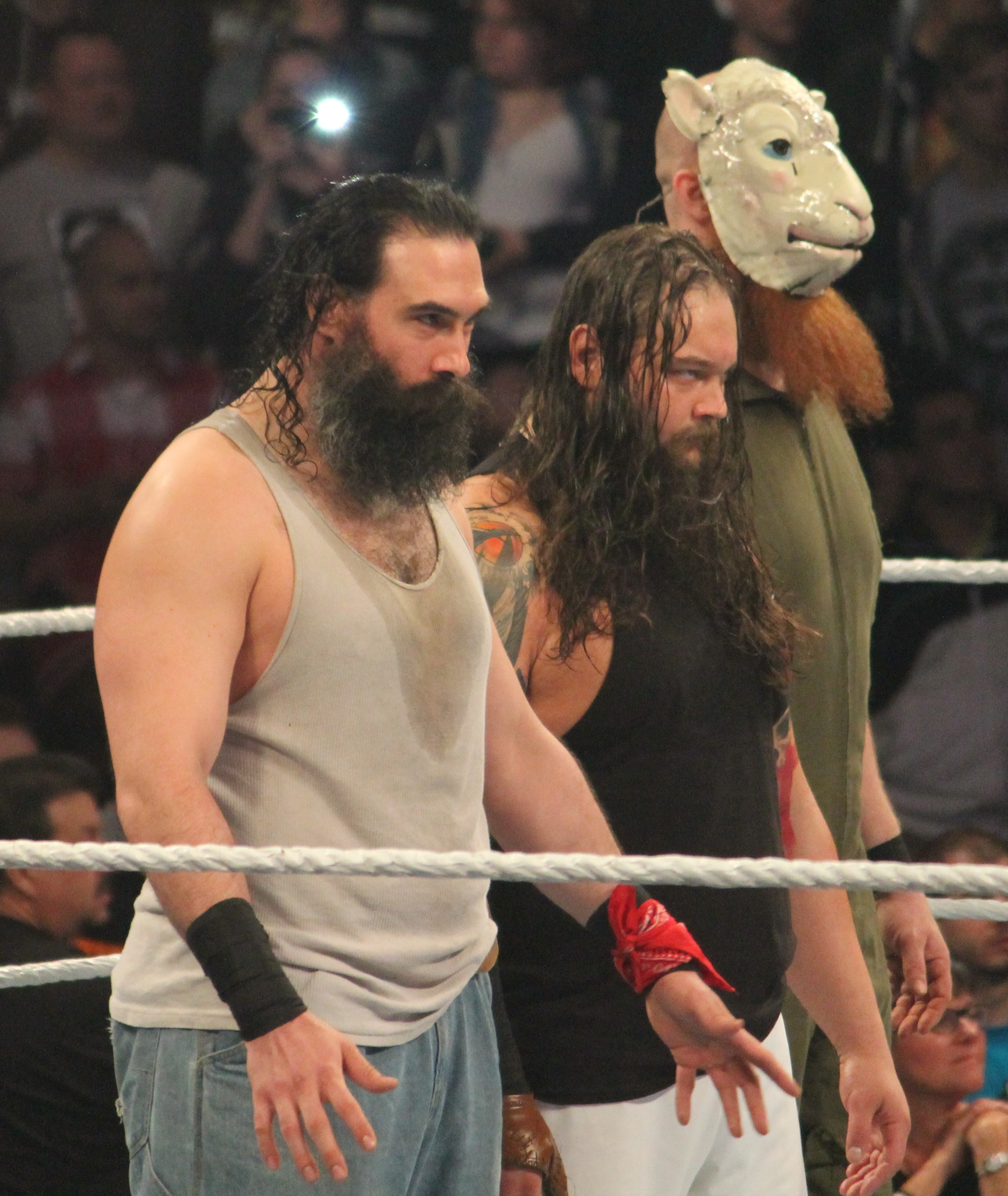 The Wyatt Family at the post-WrestleMania Raw on 7 April 2014 in New Orleans, Louisiana.